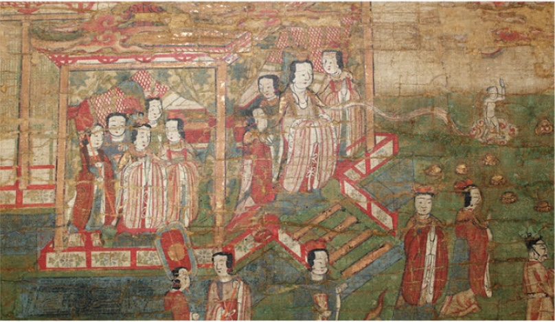 Mother before and after birth, newborn emerged from chest, five lotus pedestals, three jewels, three dignitaries with two attendants arrive.